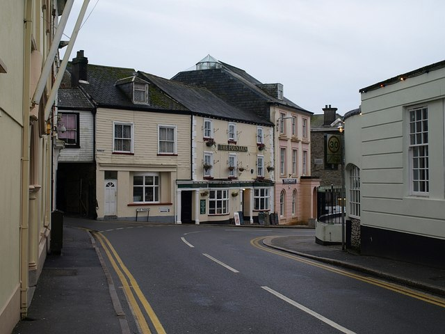 Fountain Hotel, Cornwall The irregularly-shaped square called The Parade is the site of most of Liskeard's grander town houses. This row is at the northern side, running into Barras Place (left). "Mid C19 remodelling of probable C18 house. Stucco on studwork; dry Delabole slate roof" - the full description of the hotel is at . The part slate-hung house to its left is also listed, and also part of the hotel - . For number 2, The Parade, the taller building to the right, - the building has been repainted since that photo was taken. View from West Street.